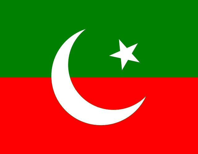 Flag of Pakistan Tehreek-e-Insaf.